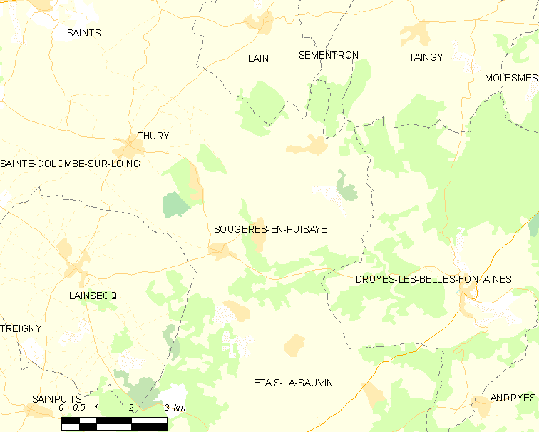 Map of French municipality Sougères-en-Puisaye